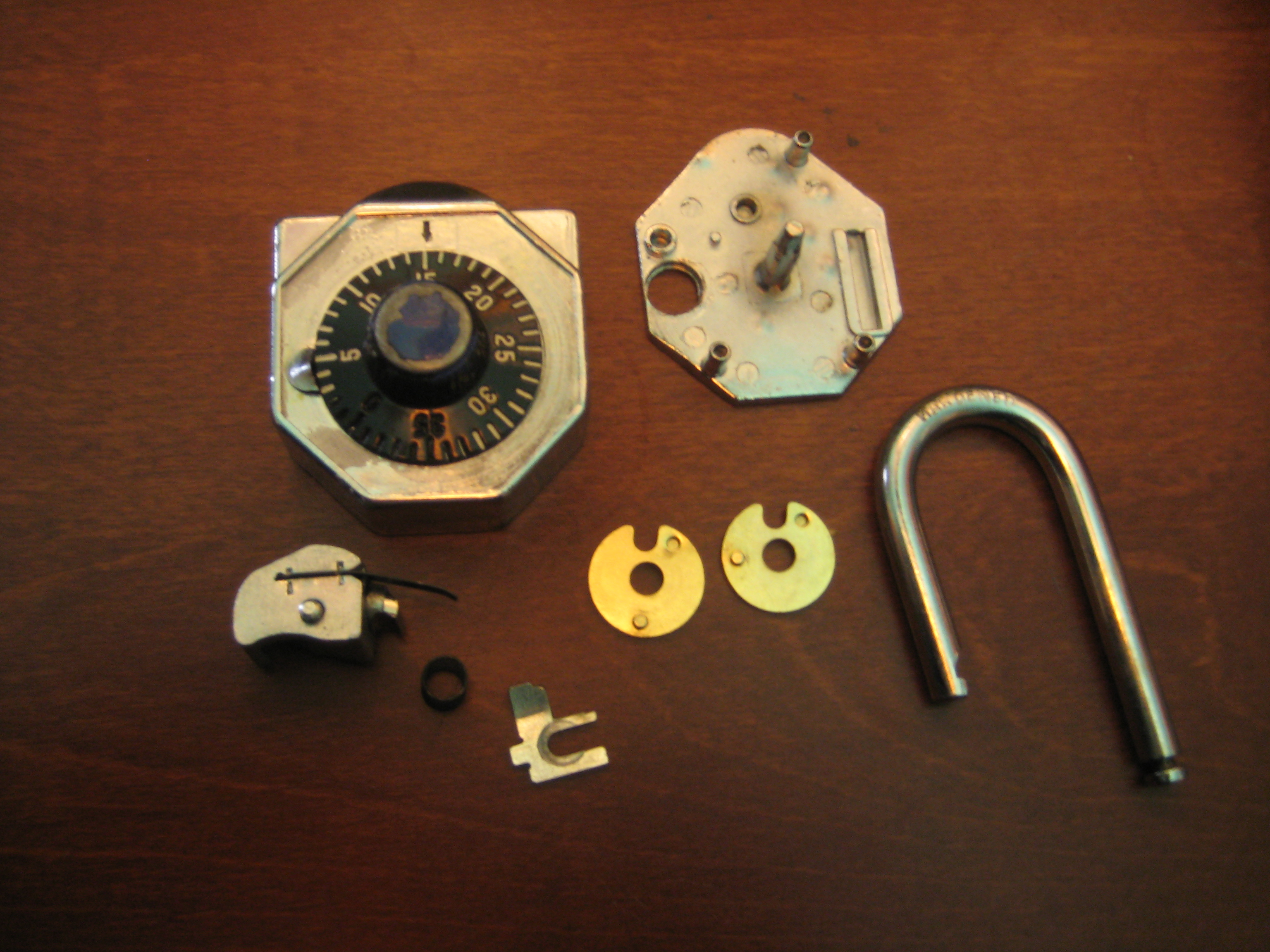 Dismantled "Stoplock" brand combination padlock.